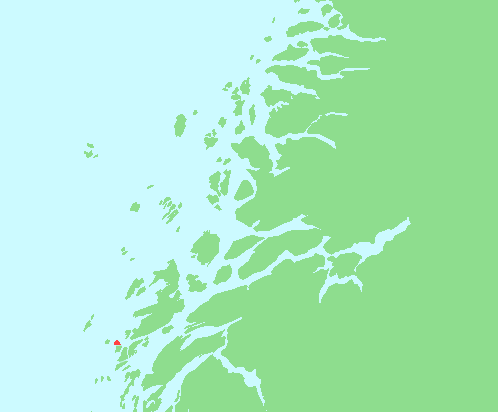 Locator map of Ytre Øksningan, Nordland, Norway